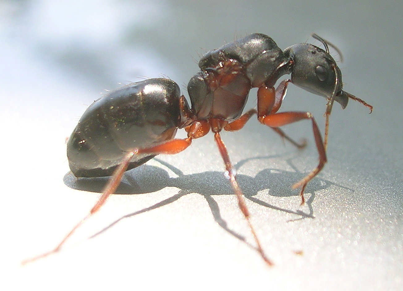 Queen (dealated) Camponotus compressus